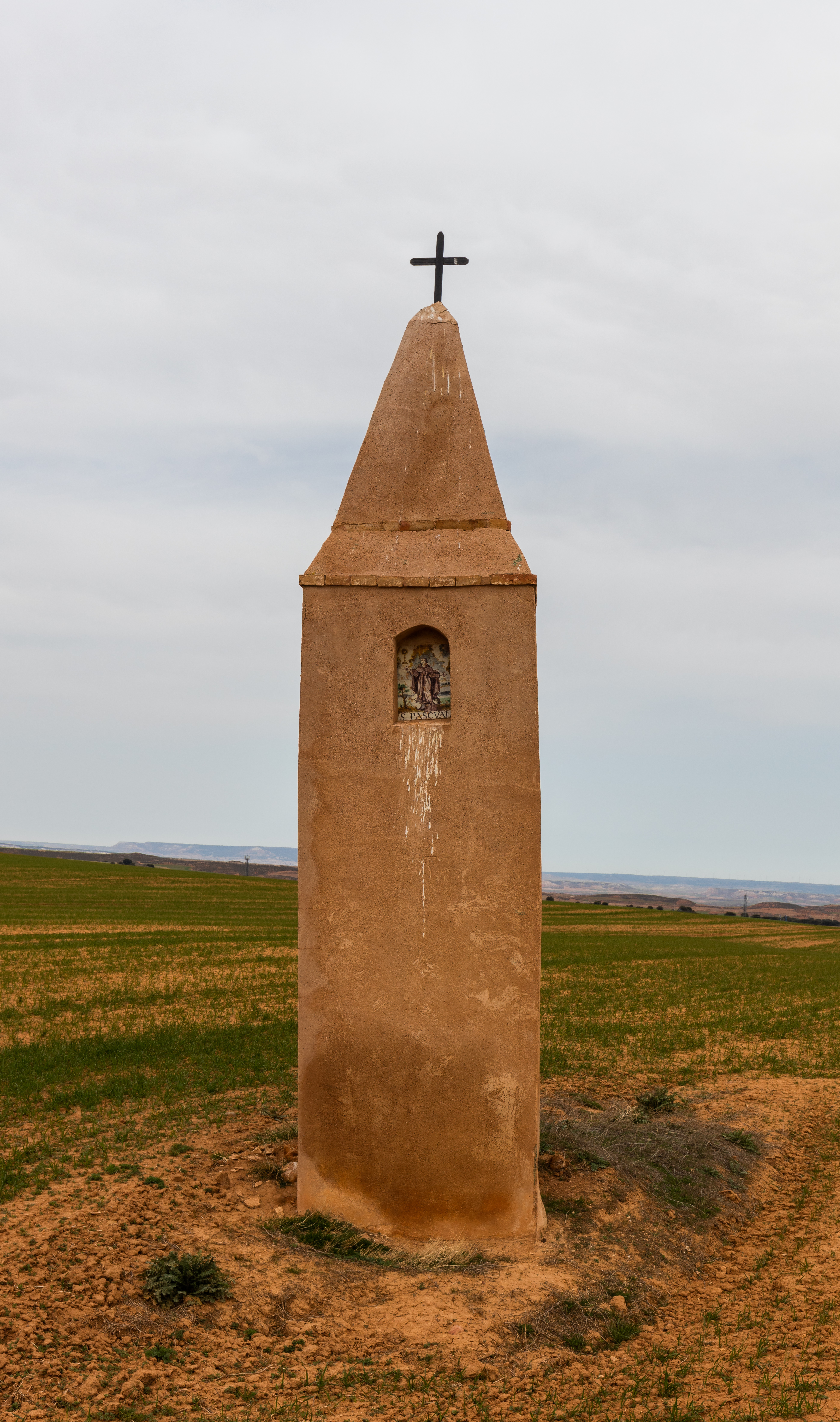 Wayside cross of Tiro de Bola, Alconchel de Ariza, Zaragoza, Spain